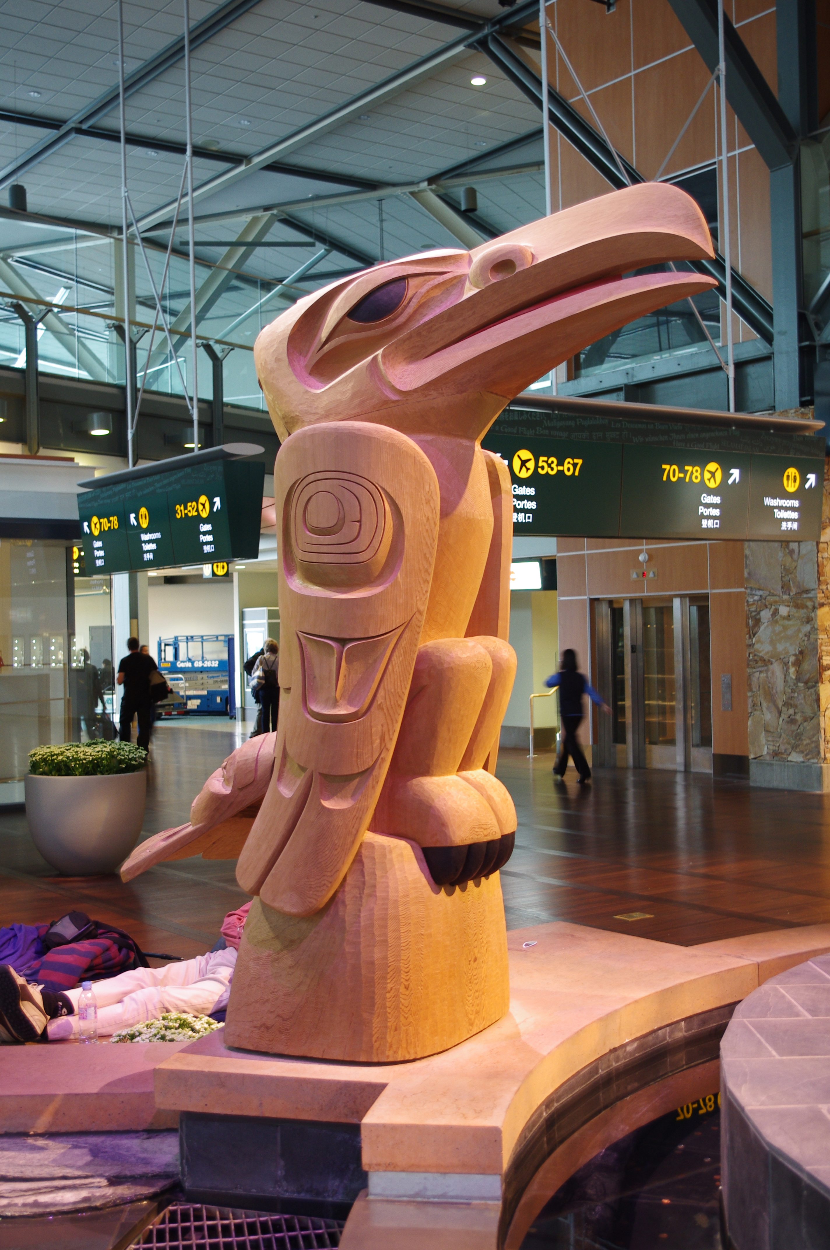 The Story of Fog Woman and Raven, sculpture by Dempsey Bob: “Raven found out that Fog Woman had salmon, so he married her to get the salmon. The salmon made Raven wealthy and for a while he was content. Eventually, Raven became bored and mistreated Fog Woman, so she left Raven. Fog Woman called back the salmon that she gave to Raven, even the salmon in his smoke house. Raven realized his mistake and tried to grab her, but she turned to fog. Still, Fog Woman wanted the people to have the salmon, so once a year the salmon return to the streams to spawn and bring food to the people.”